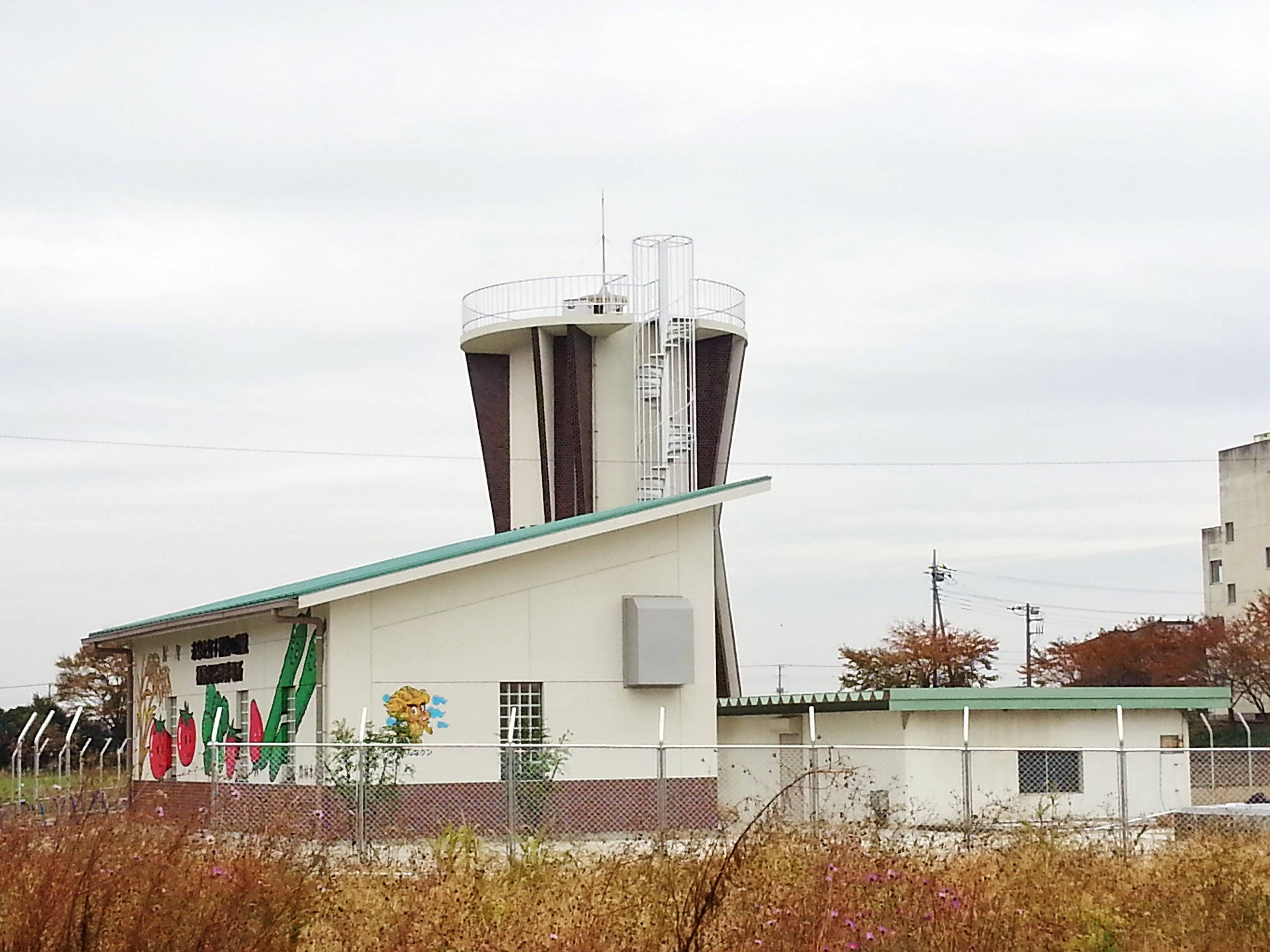 Kannagawaengan hydroelectric power station.